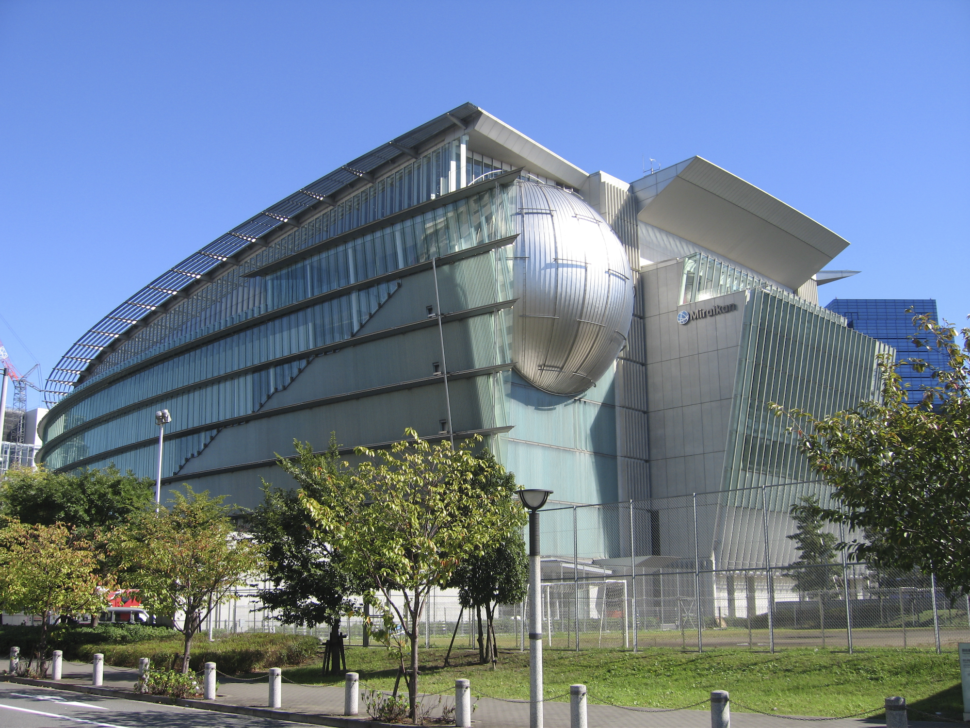 Japanese science museum Miraikan